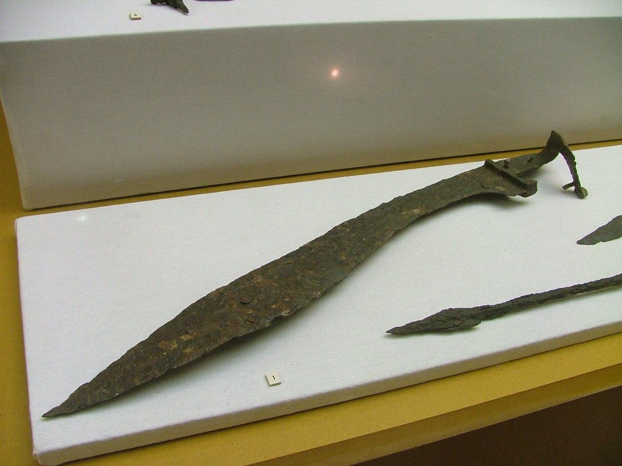 Iberian falcata and soliferreum, from the ancient Iberian settlement of Bastida de les Alcuses, in Moixent (Valencia).